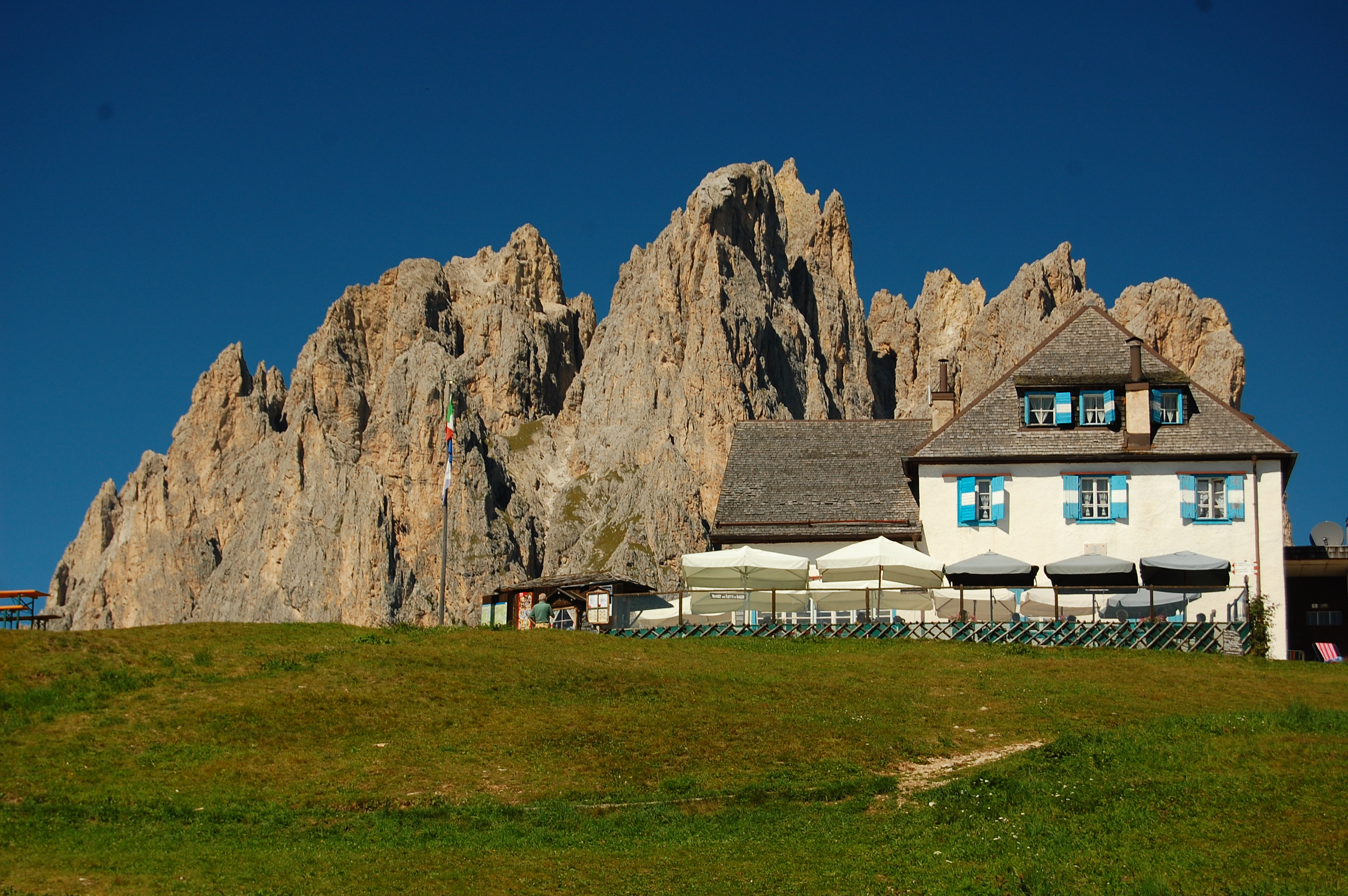 View of Rifugio Ciampedie with the "Catinaccio" on the background